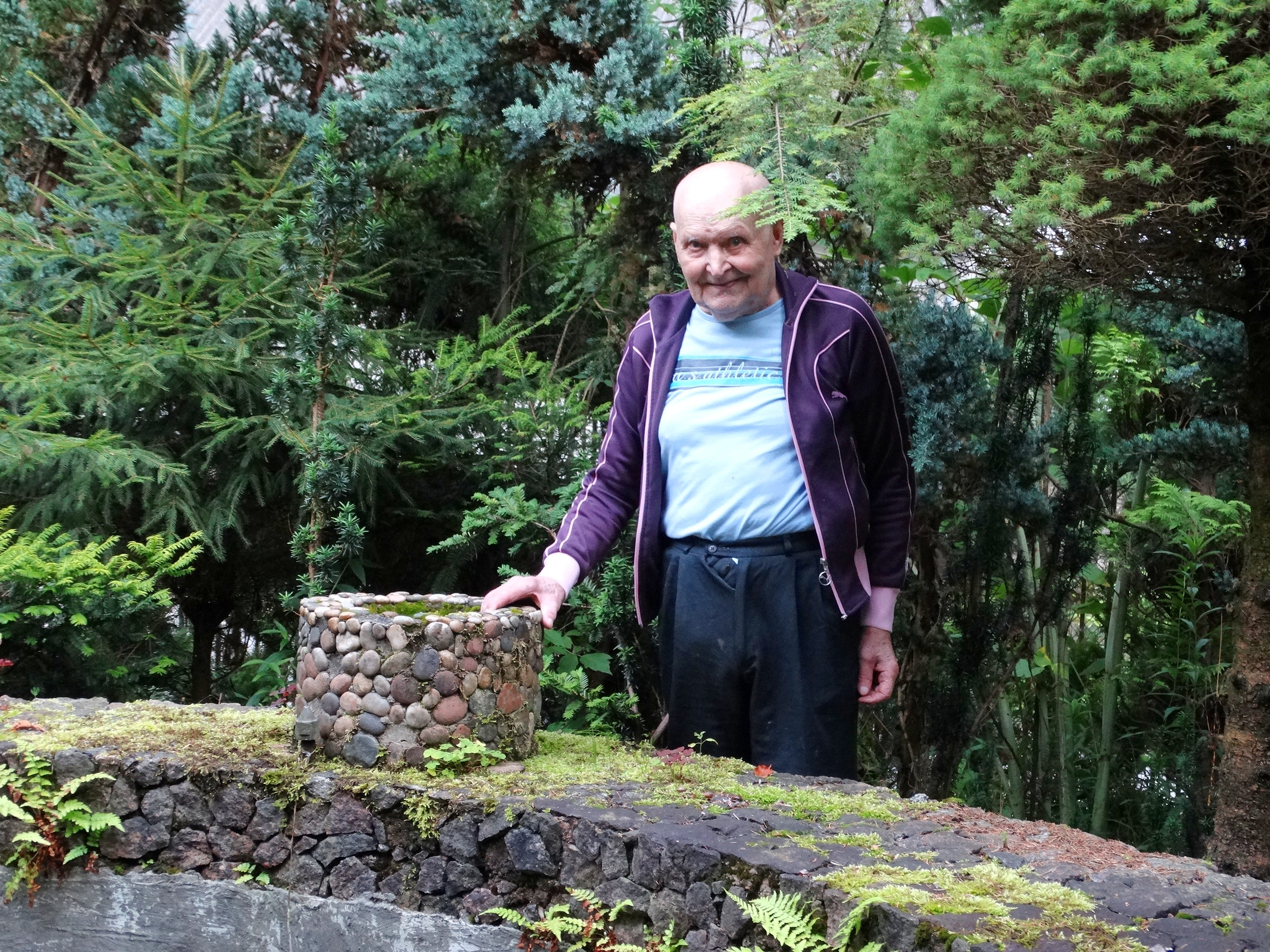 Dendrologist, Juozas Leleika in his garden of trees, Vilnius, Lithuania